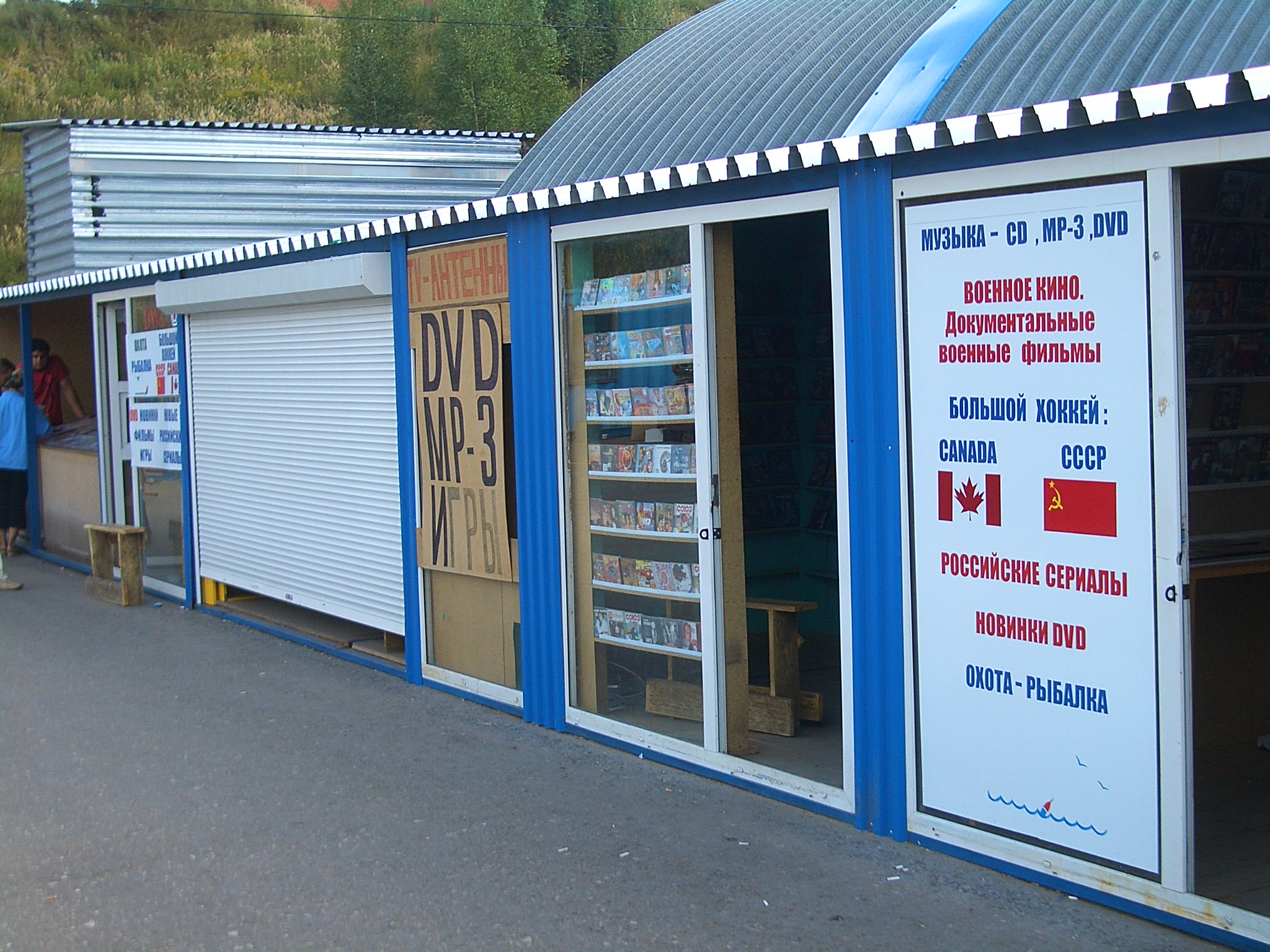 Hertz Market in Nizhny Novgorod - a market primarily for radioelectronics and parts